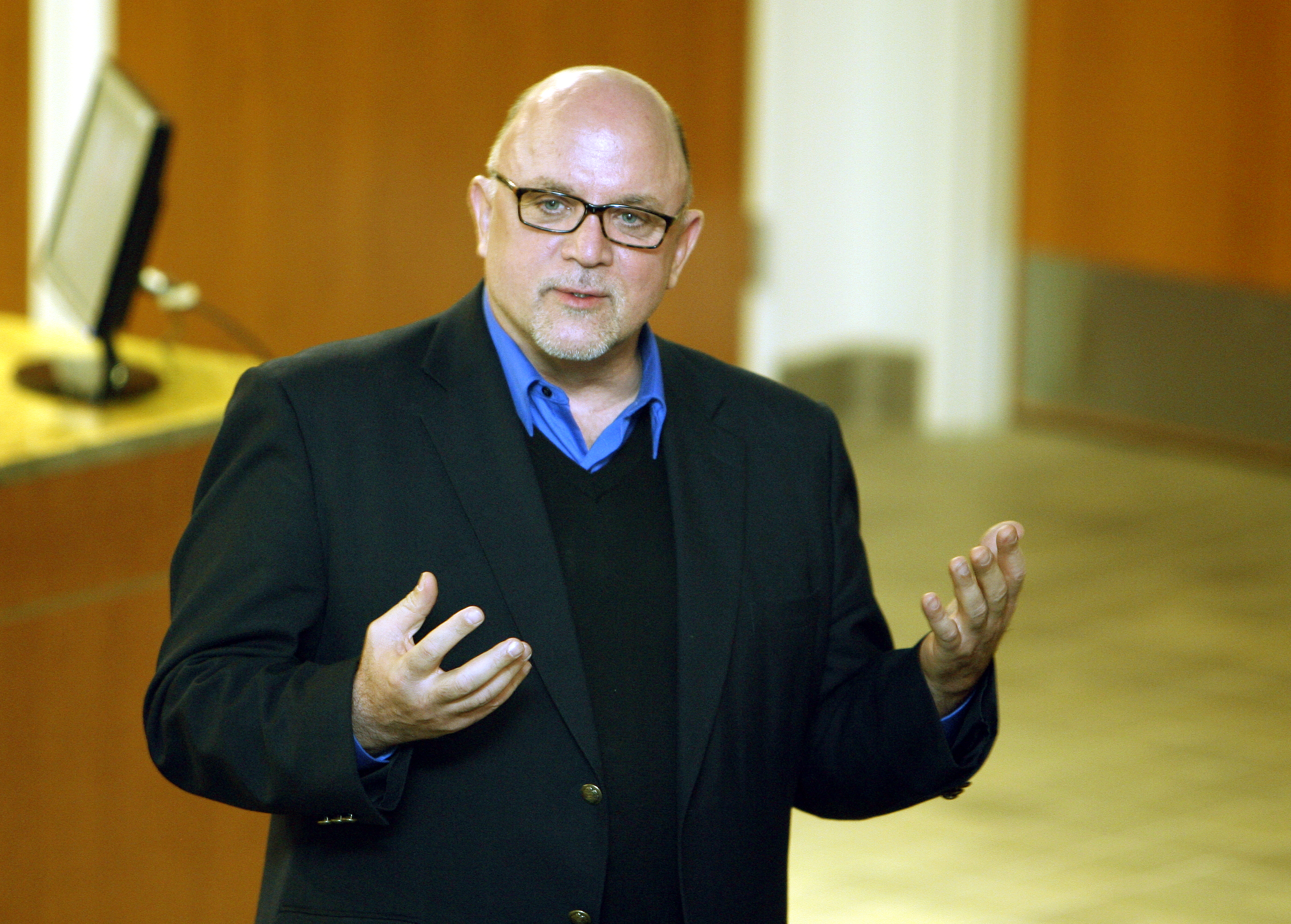 Dean Richards at College of DuPage's Waterleaf fine dining restaurant, Friday February 10, 2012.